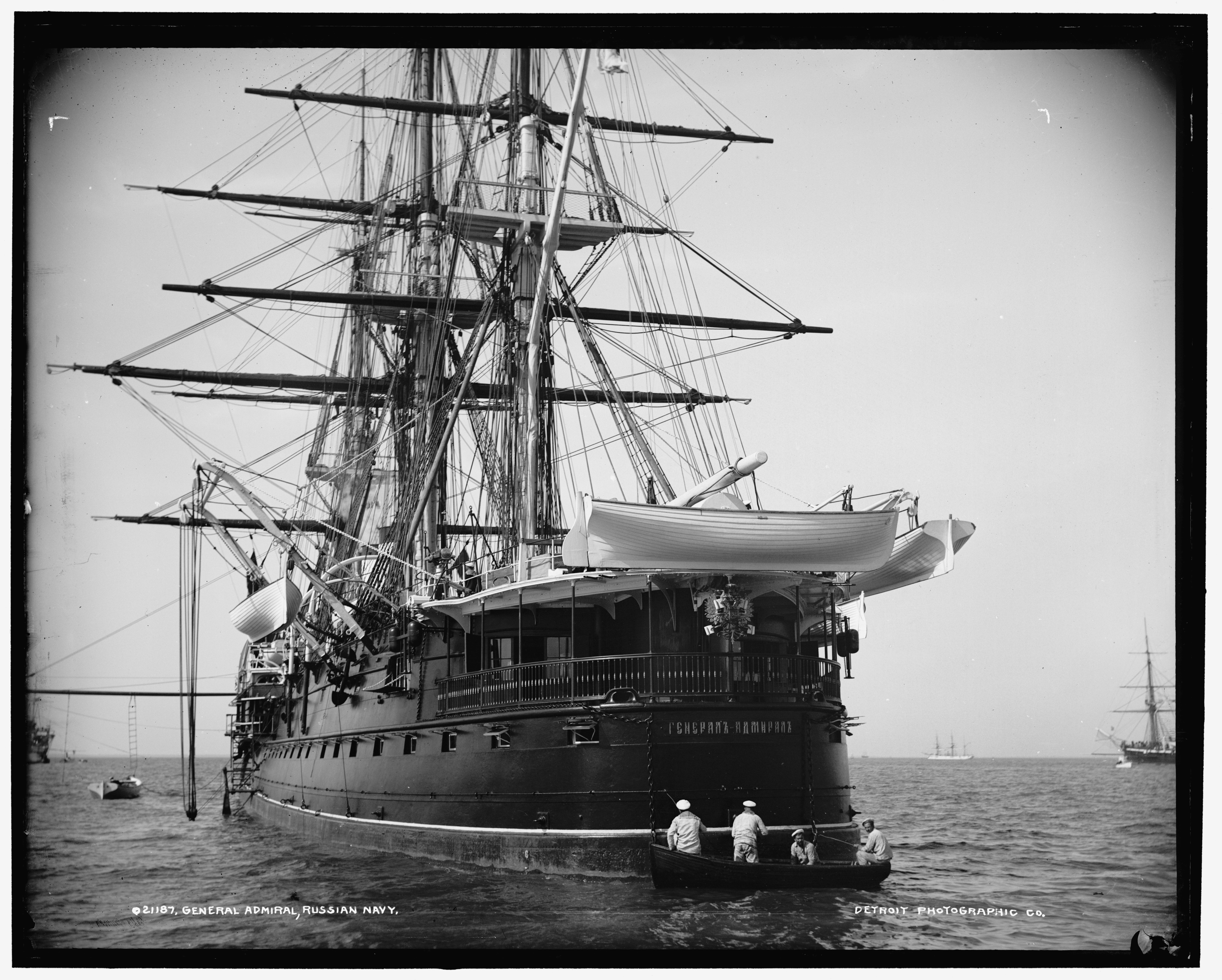 General-Admiral of the Russian Navy at Columbian Naval Review, 1893